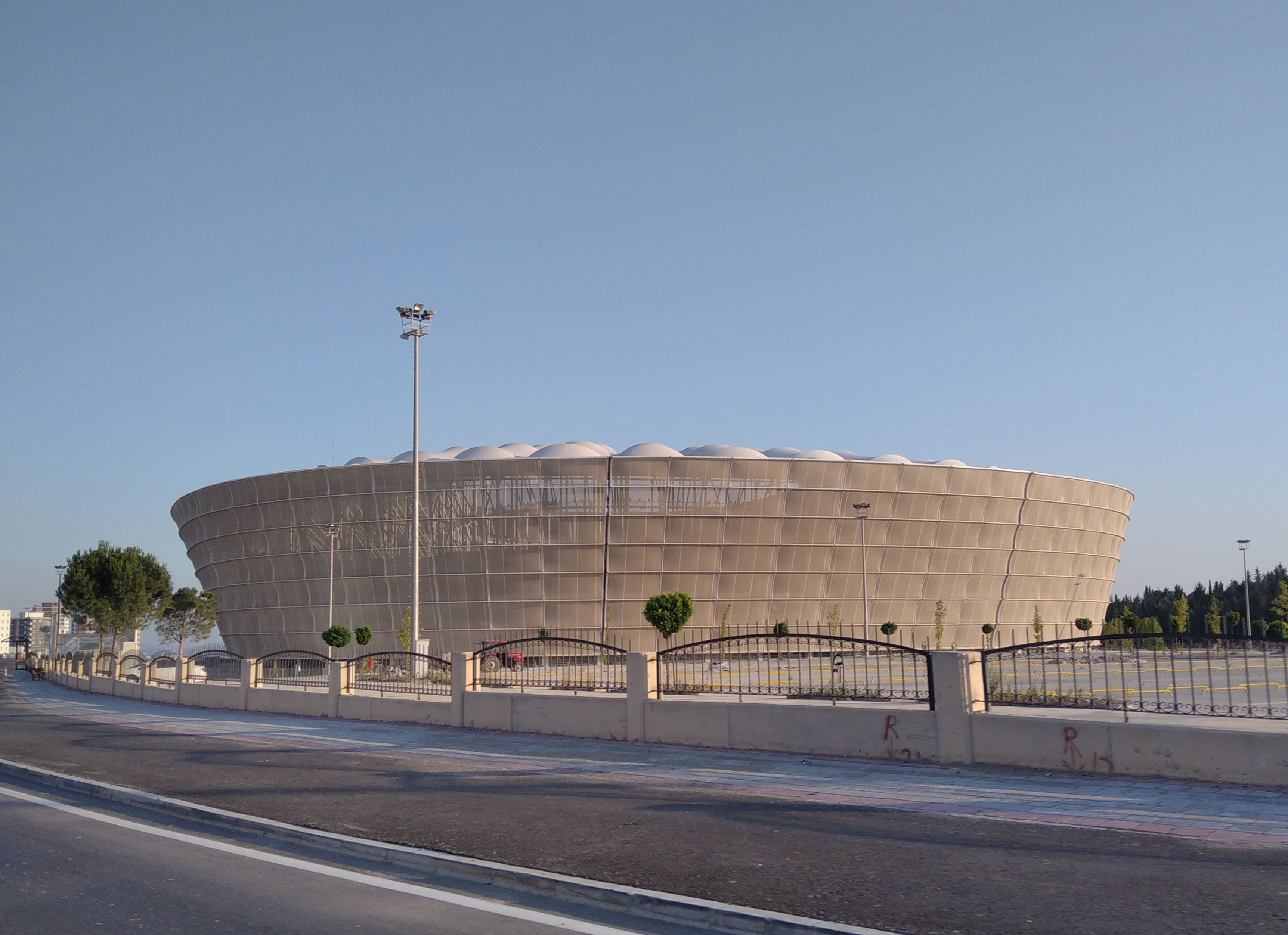 Adana New Stadium is a football specific stadium that is under construction in the Sarıçam district of Adana, Turkey.